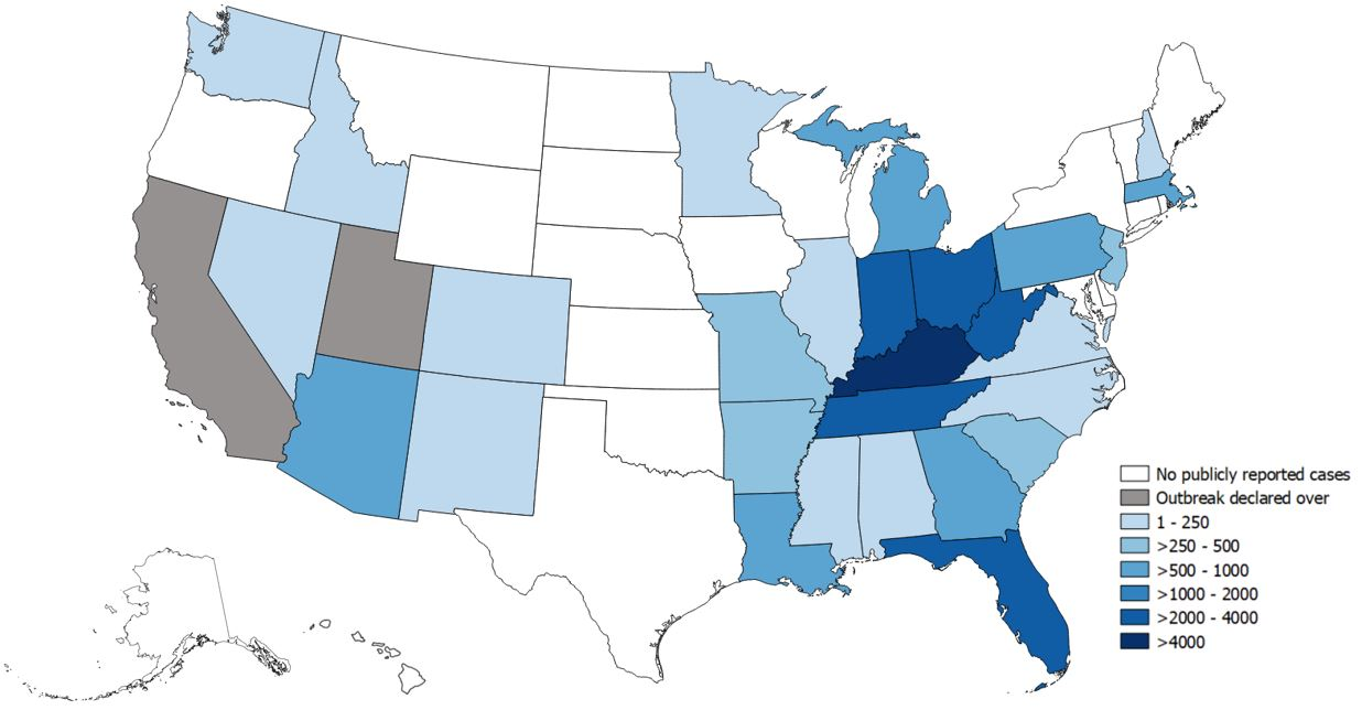 Map of the 2019 United States Hepatitis A outbreak.